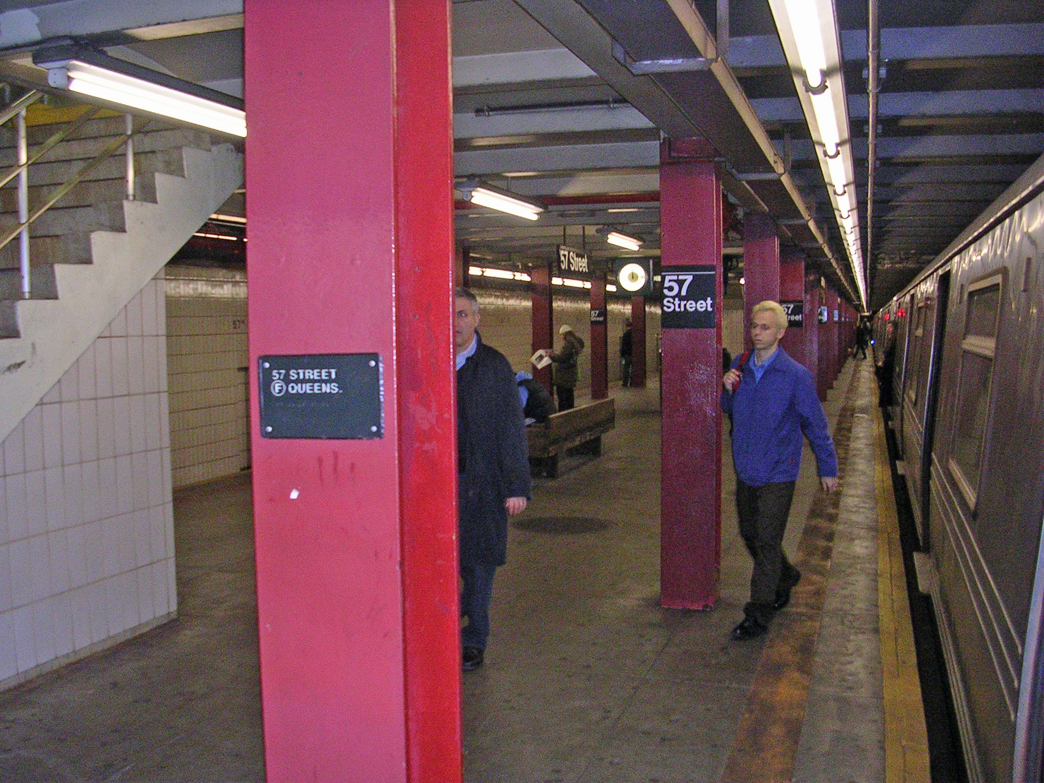 57th_Street Station by David Shankbone, January 15, 2007.